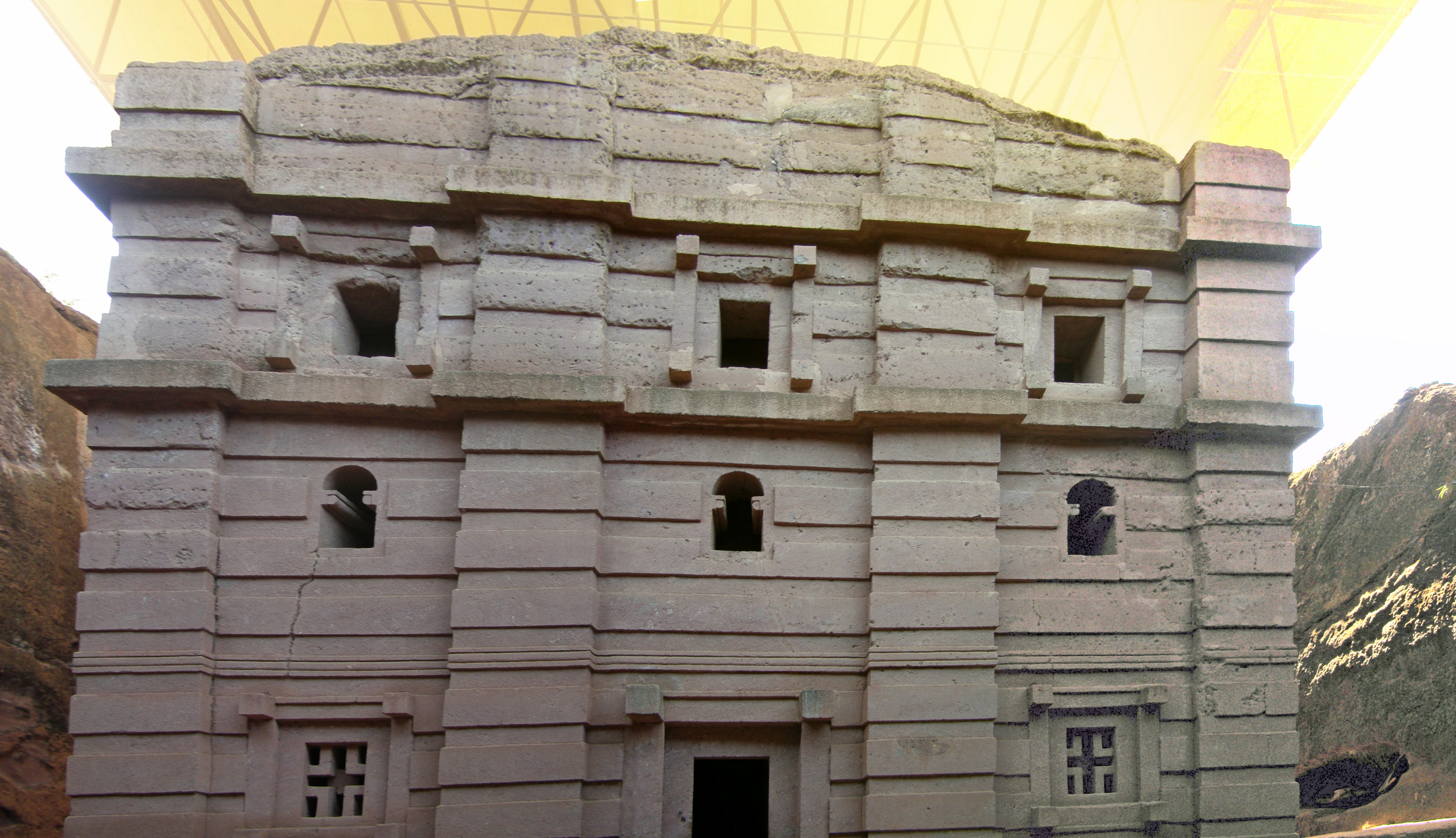 Church of St. Emmanuel is located in the eastern part of the complex. This church stands out in its external ornamentation and has an underground tunnel of 35 m long which links to the courtyard of Beta Merkurios.